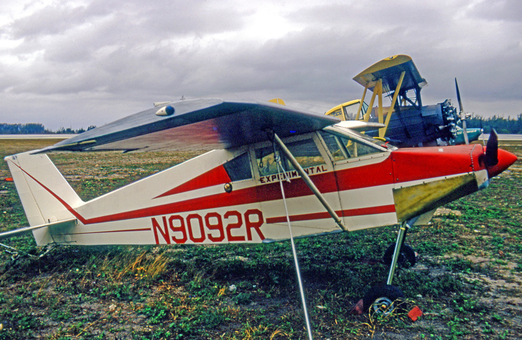 Nesmith Cougar 1C N9092R at Opa Locka Airport near Miami in 1971